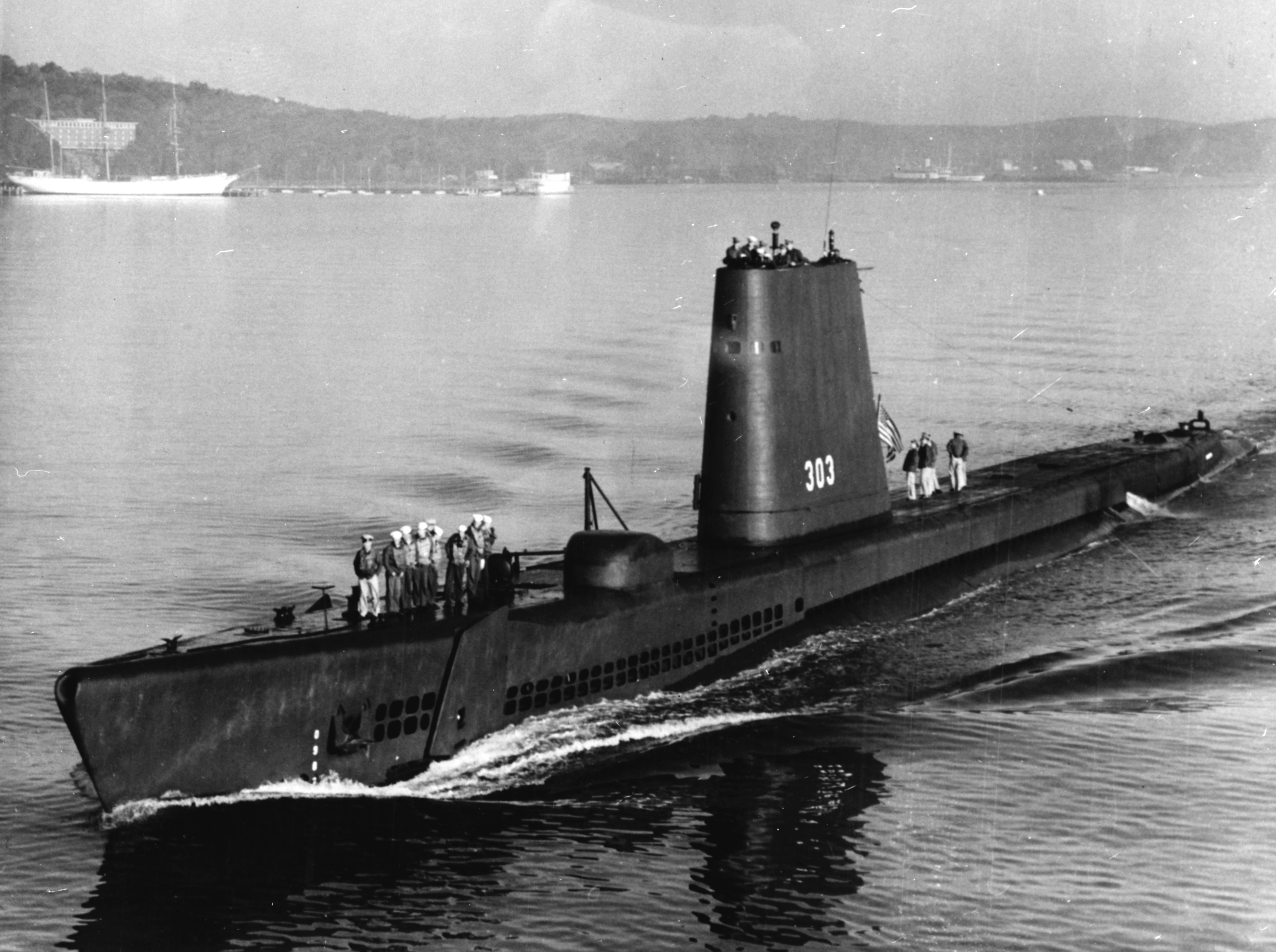 The U.S. Navy submarine USS Sablefish (SS-303) underway off New London, Connecticut (USA), during the 1960s. The U.S. Coast Guard Academy, with the training ship Eagle at dock, is at left.